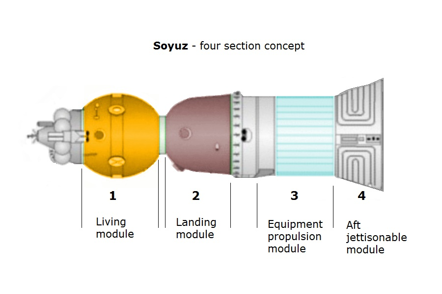 Soyuz four section concept.